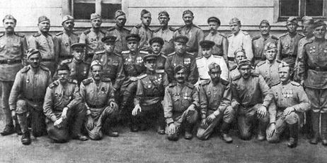 Soviet 327th regiment of the 128th Guards division